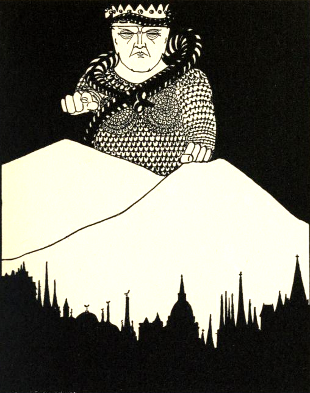 Mammon, A book of images, 1898, by W.T. Horton (1864-1919), preface by W.B. Yeats (1865-1939).